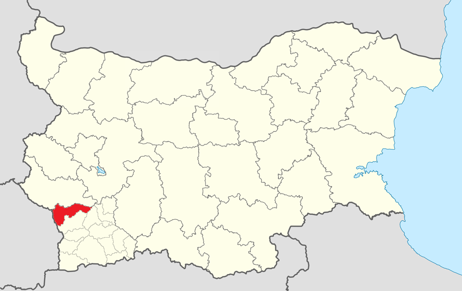 Location map of Blagoevgrad Municipality within Bulgaria and Blagoevgrad province